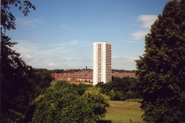 View across Jesmond Vale, Newcastle-upon-Tyne, to Vale House